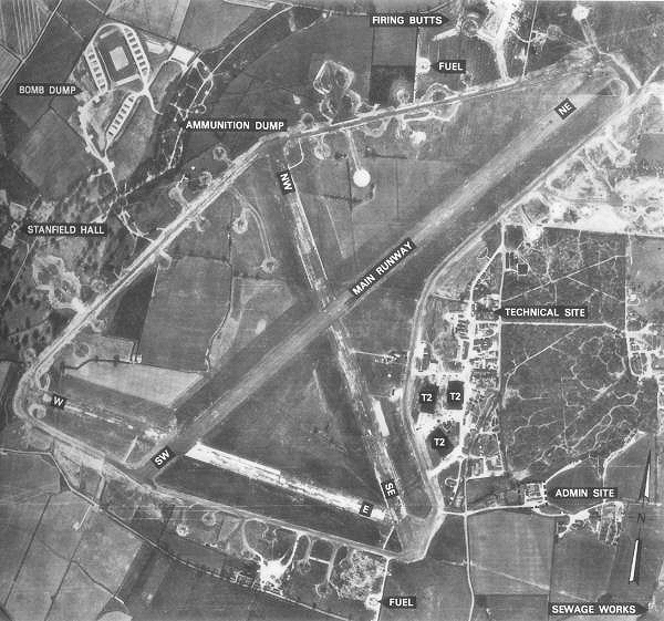 Aerial photograph of Hethel Airfield, England.